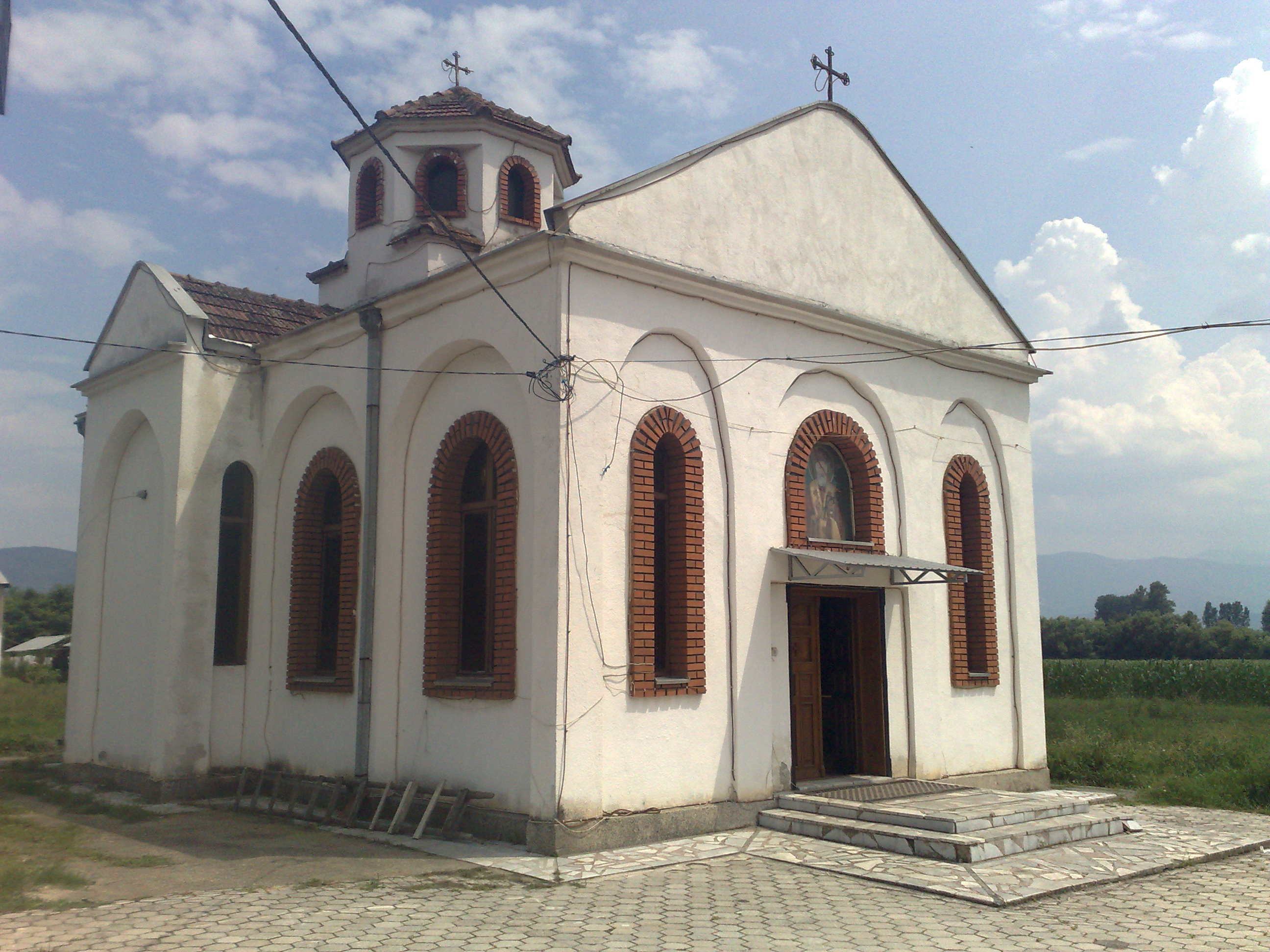 St. Athanasius Church in Dolno Sedlarce, Macedonia